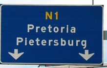 N1 freeway in SA